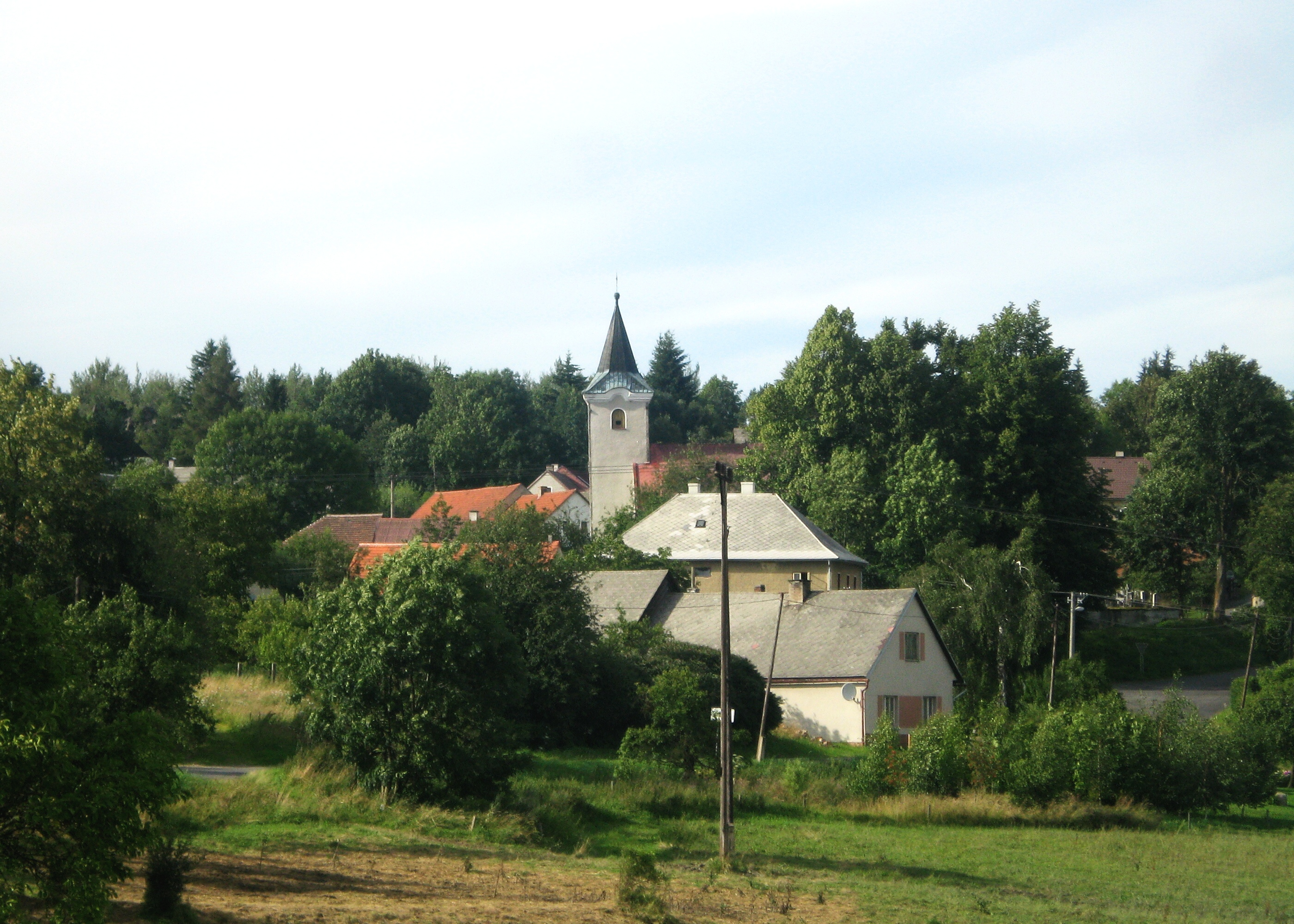 Zdebořice (Klatovy district, Czech Republic)